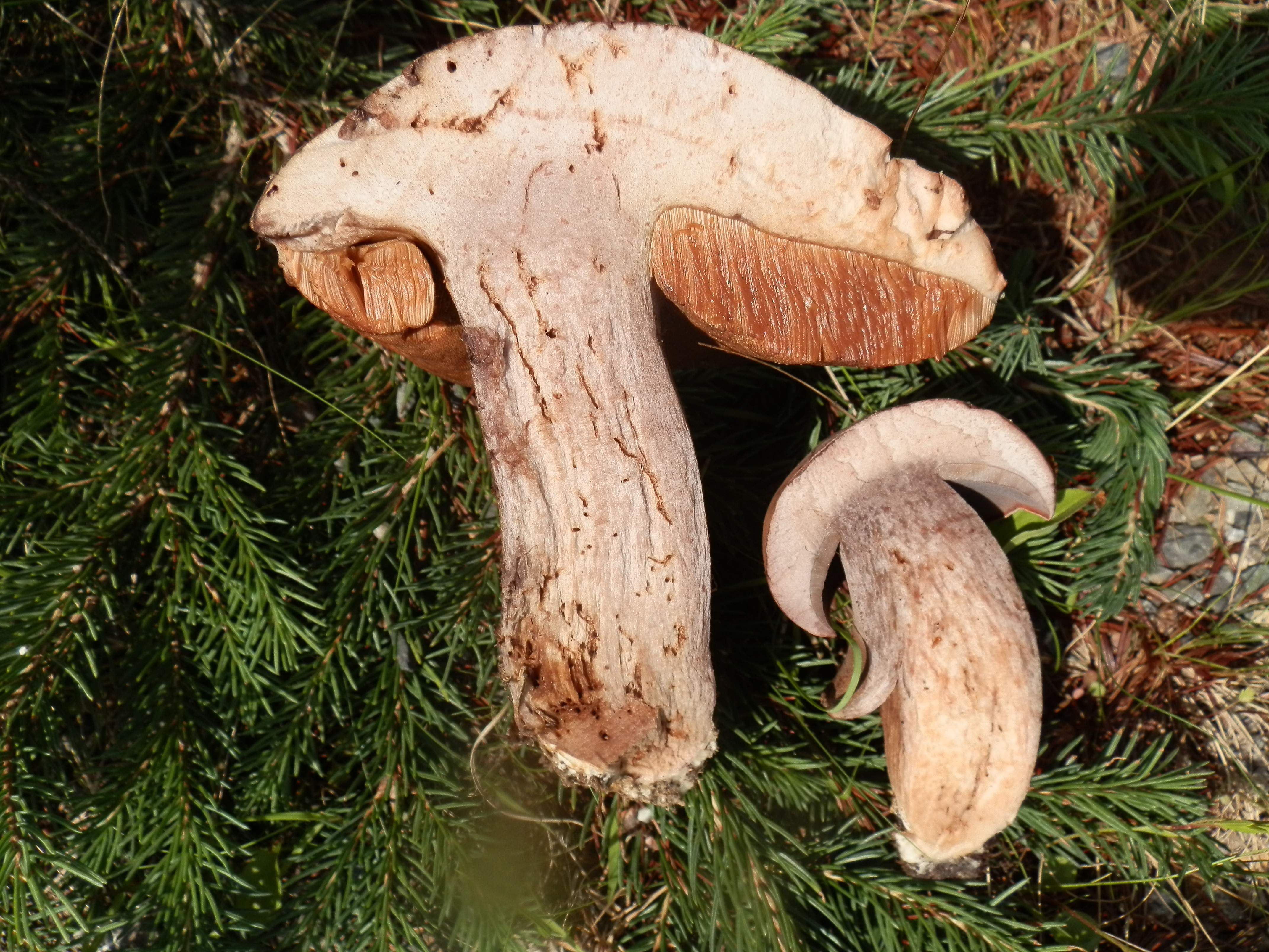 A bisected fruitbody of the bolete fungus Sutorius eximius.